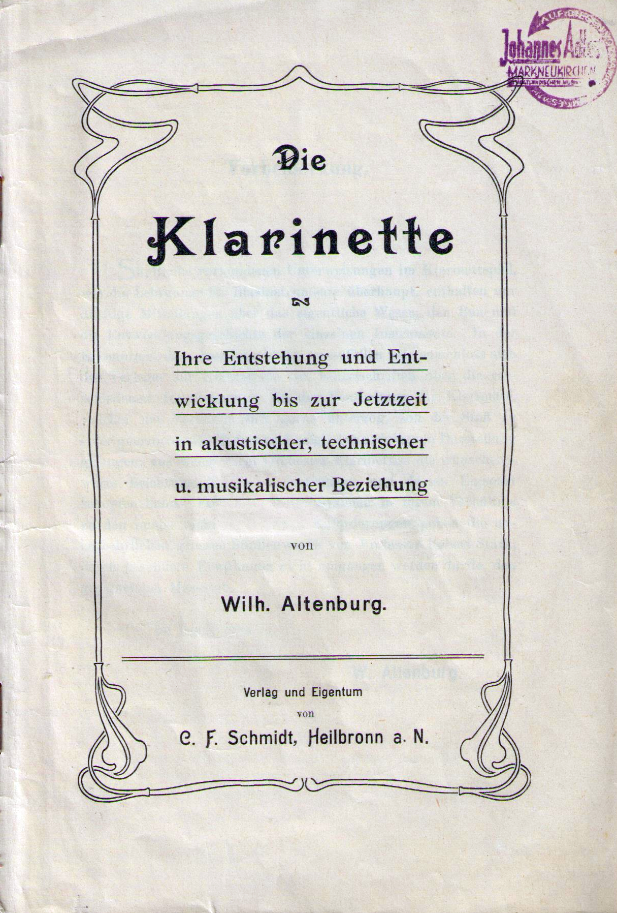 Cover page of the book "Die Klarinette" by Wilhelm Altenburg (1904)